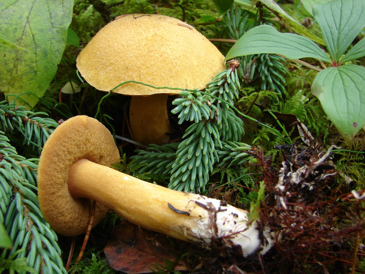 Suillus tomentosus (Kauffman) Singer Image location: Peace River Area, British Columbia, Canada Recognized by sight For more information about this, see the observation page at Mushroom Observer.